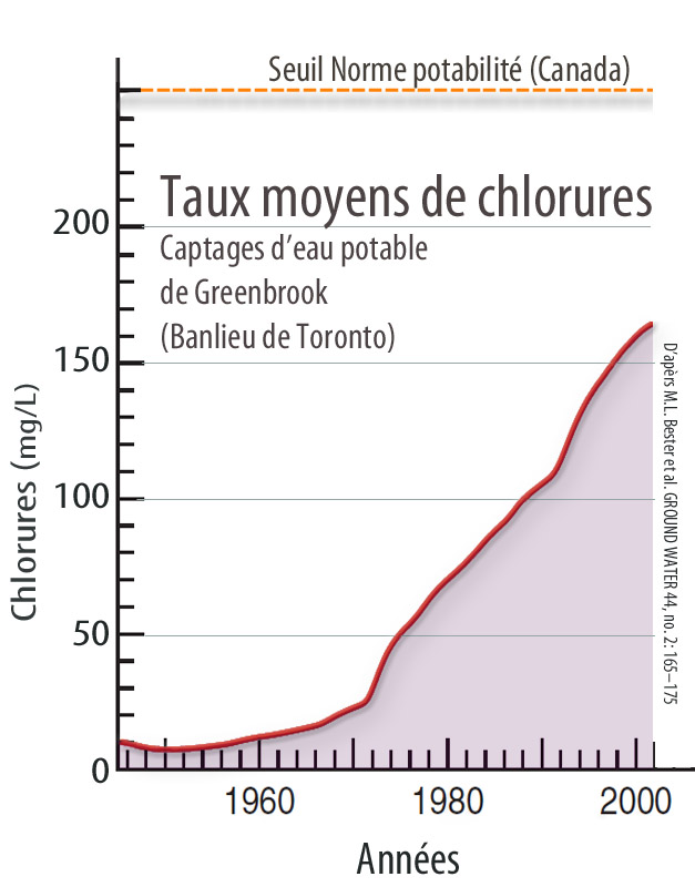 flux-weighted chloride concentrations in the Greenbrook production wells (Toronto)